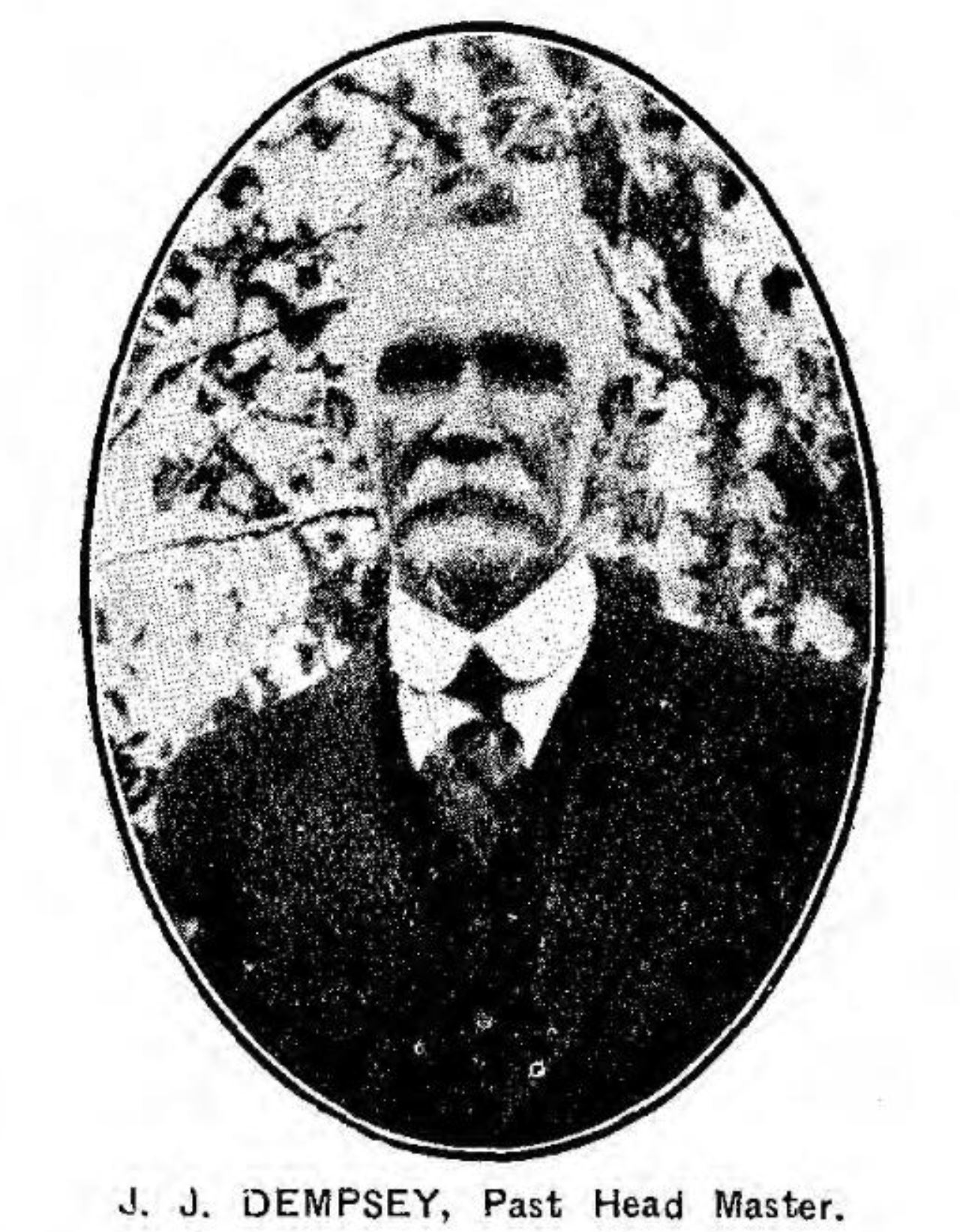 James Joseph Dempsey, headmaster of Junction Park State School from 1889 to 1923